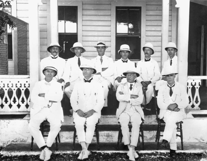 Members of the First Legislatie Council in Samoa, ca 1921